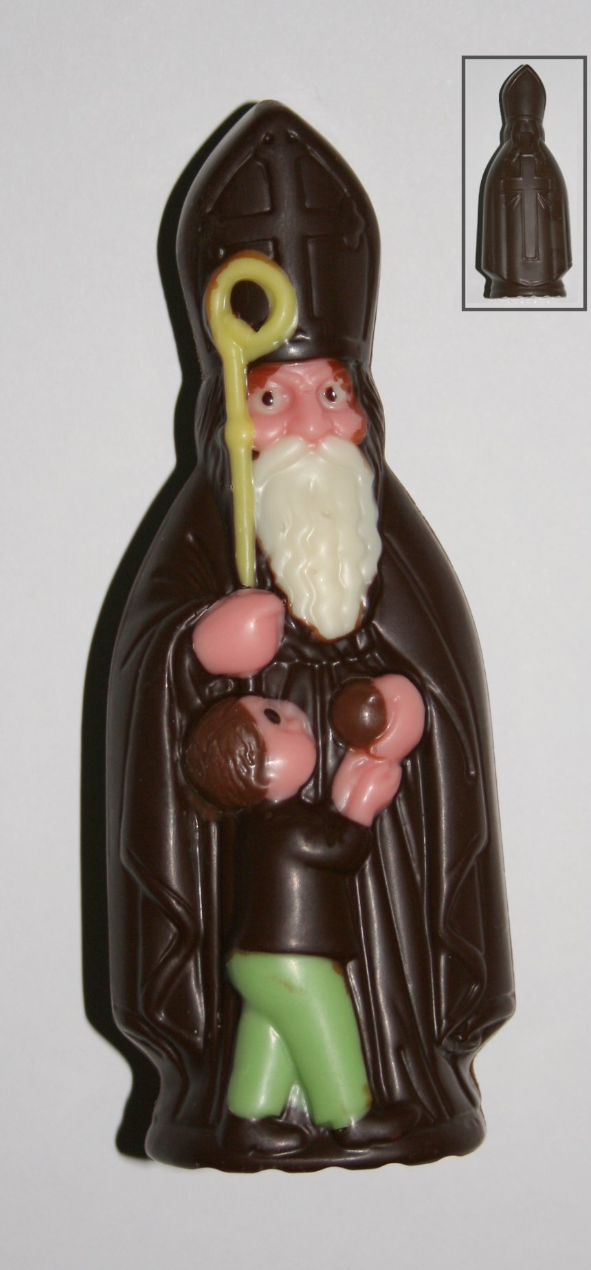 Dresses made of chocolate